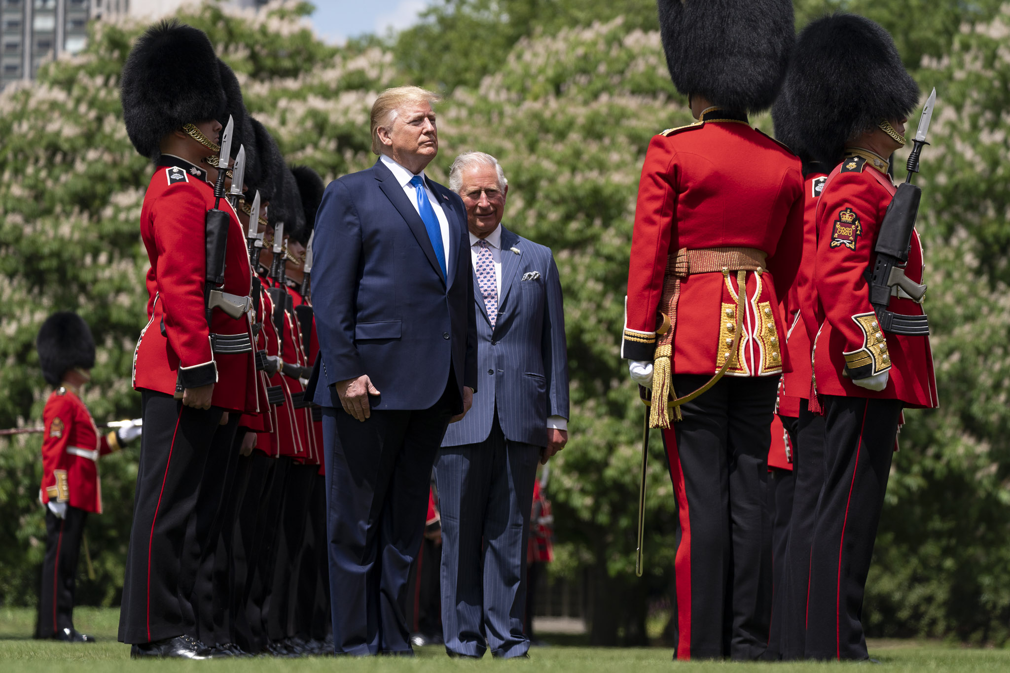 President Donald J. Trump joined by the Prince Charles inspects the Guard of Honor during the official welcome ceremony at Buckingham Palace Monday, June 3, 2019 in London. (Official White House Photo by Shealah Craighead)